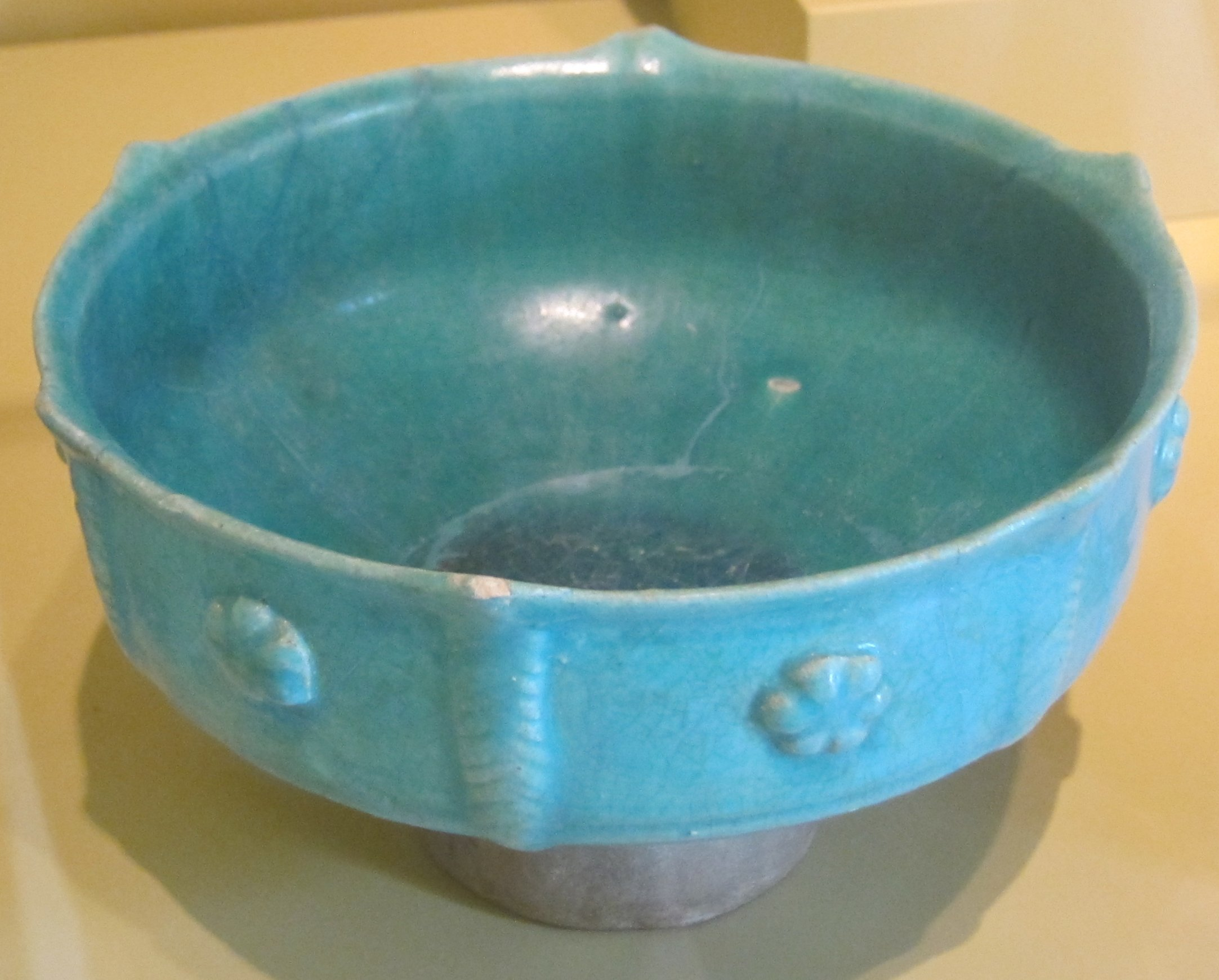 Bowl with rosettes from Iran, 12th century, glazed stone-paste, Honolulu Academy of Arts (long-term loan from the Doris Duke Foundation for Islamic Art)